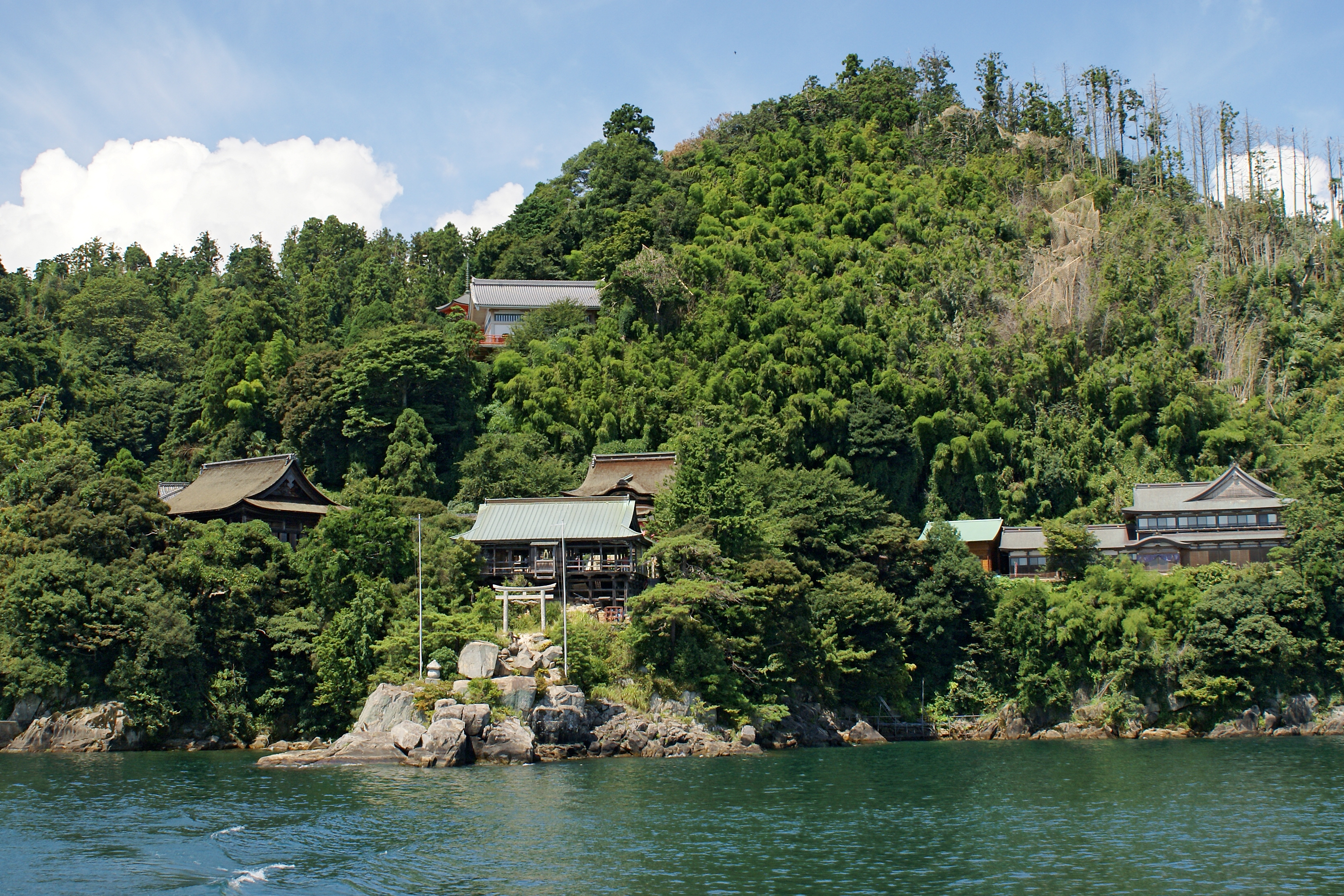 Chikubu Island (Chikubu-jima and Hogon-ji) in Nagahama, Shiga prefecture, Japan